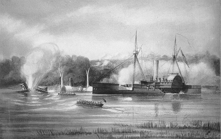 USS Wyalusing providing covering fire for boats dragging for mines on the Roanoke River, 9 December 1864. To the left of the image can be seen the sunken USS Otsego, sunk by striking a mine, and the tugboat USS Bazely, also sunk by a mine while going to the assistance of Otsego.